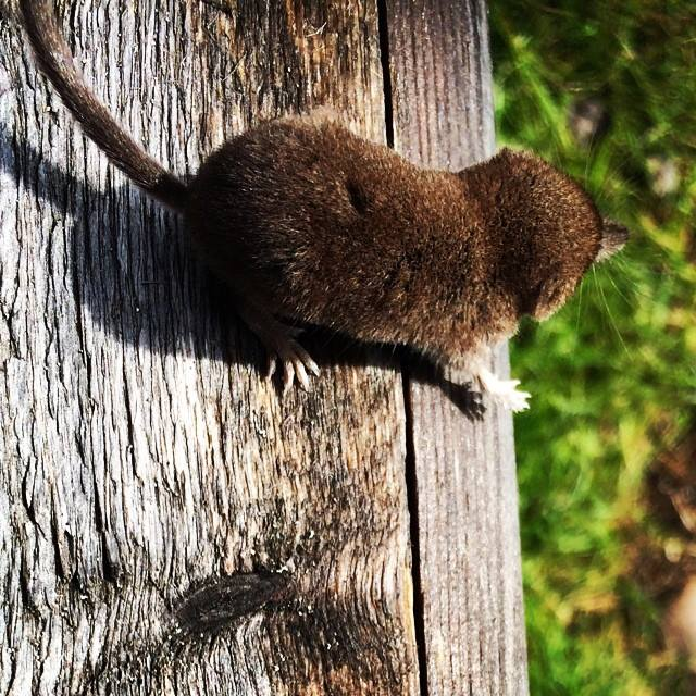 Laxmann's shrew. Typical white feet, the brush tail not in picture.